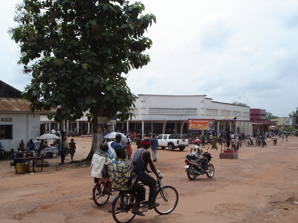 The commercial centre of Mbandaka, Equateur province, DRC